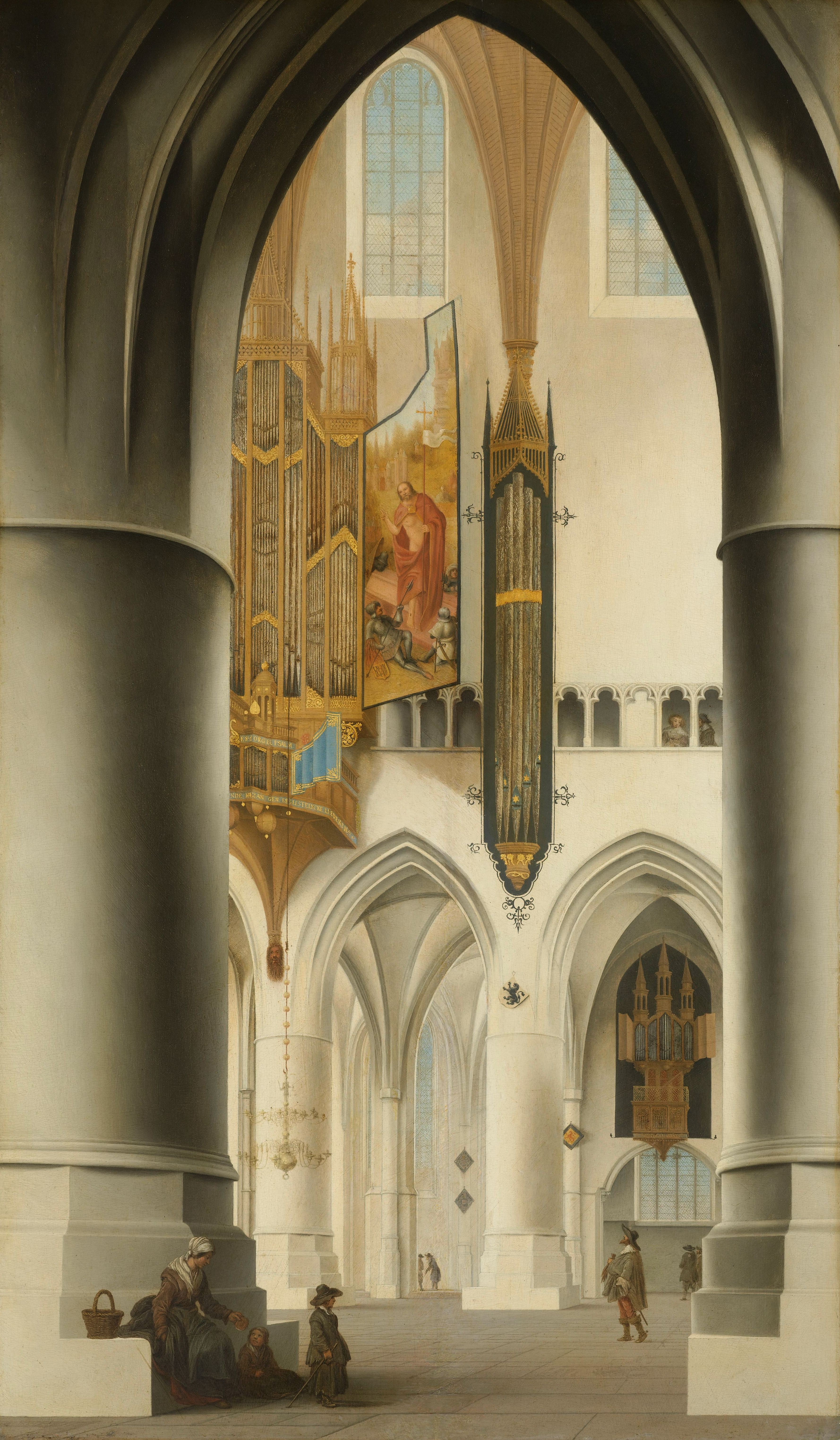 Interior of the Grote Kerk or St Bavokerk in Haarlem, seen from the southern ambulatory through the choir onto the northern ambulatory with the large organ. A woman with two children sit at the left column. On the shutter of the organ is painted the Resurrection of Christ. On a wall in the northern ambulatory there is a second, smaller organ.